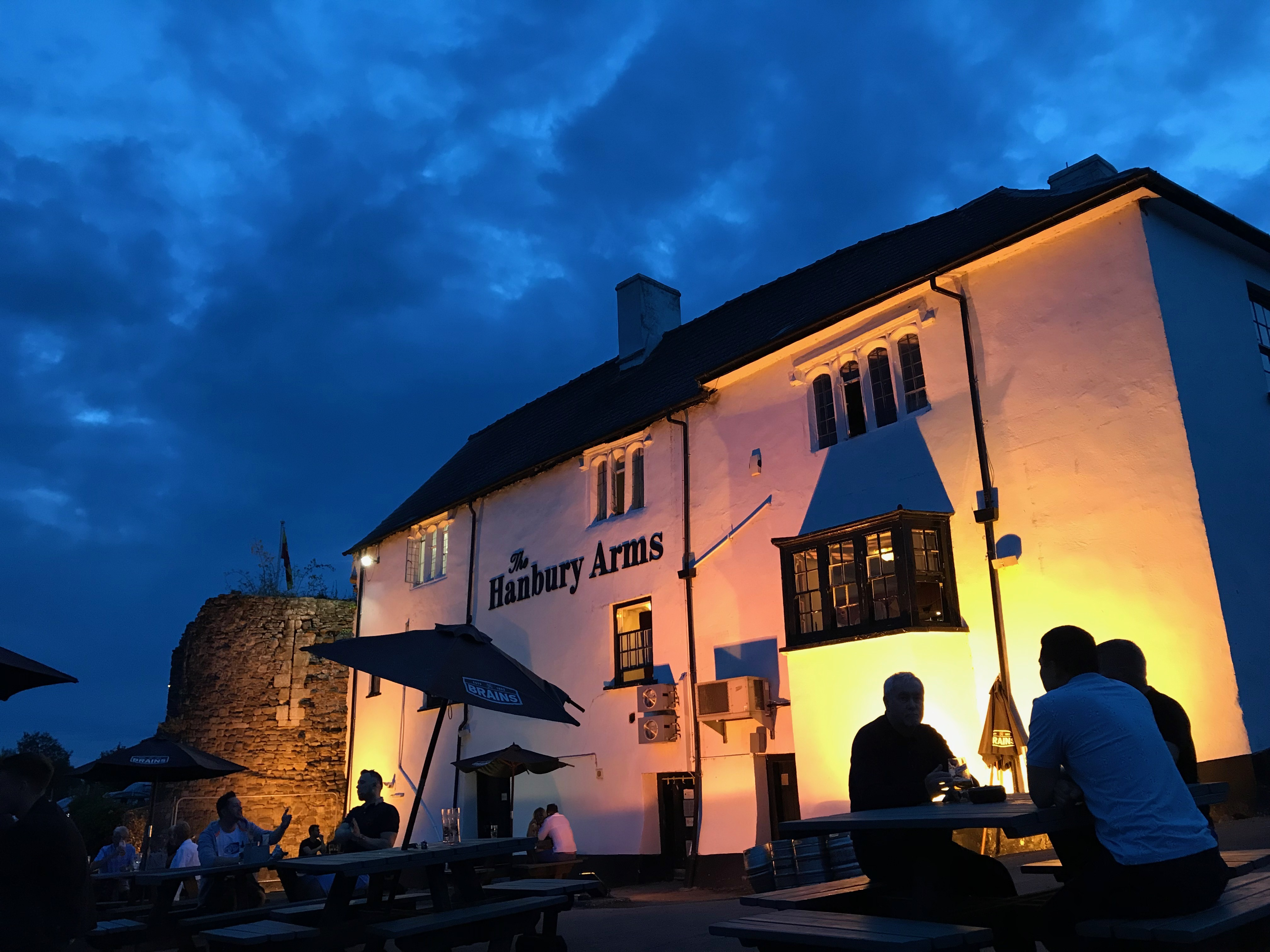 An evening photograph of the Hanbury Arms public house. The pub is a famous 16th century establishment which has an adjoining castle dating back to the Norman era, but the slipway on the banks of the pub had a role in the Roman fortress of Isca Augusta at Caerleon. The pub is situated in the town centre, on the banks of the River Usk. The pub is famous for being the site where Alfred, Lord Tennyson wrote the Idylls of the King from the window of the pub. The establishment provides views from the bar across the valley of the Usk and of Caerleon Bridge.